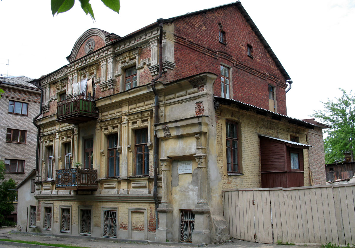 The last old house at Putna street near Uśpienskaja Hill in Viciebsk